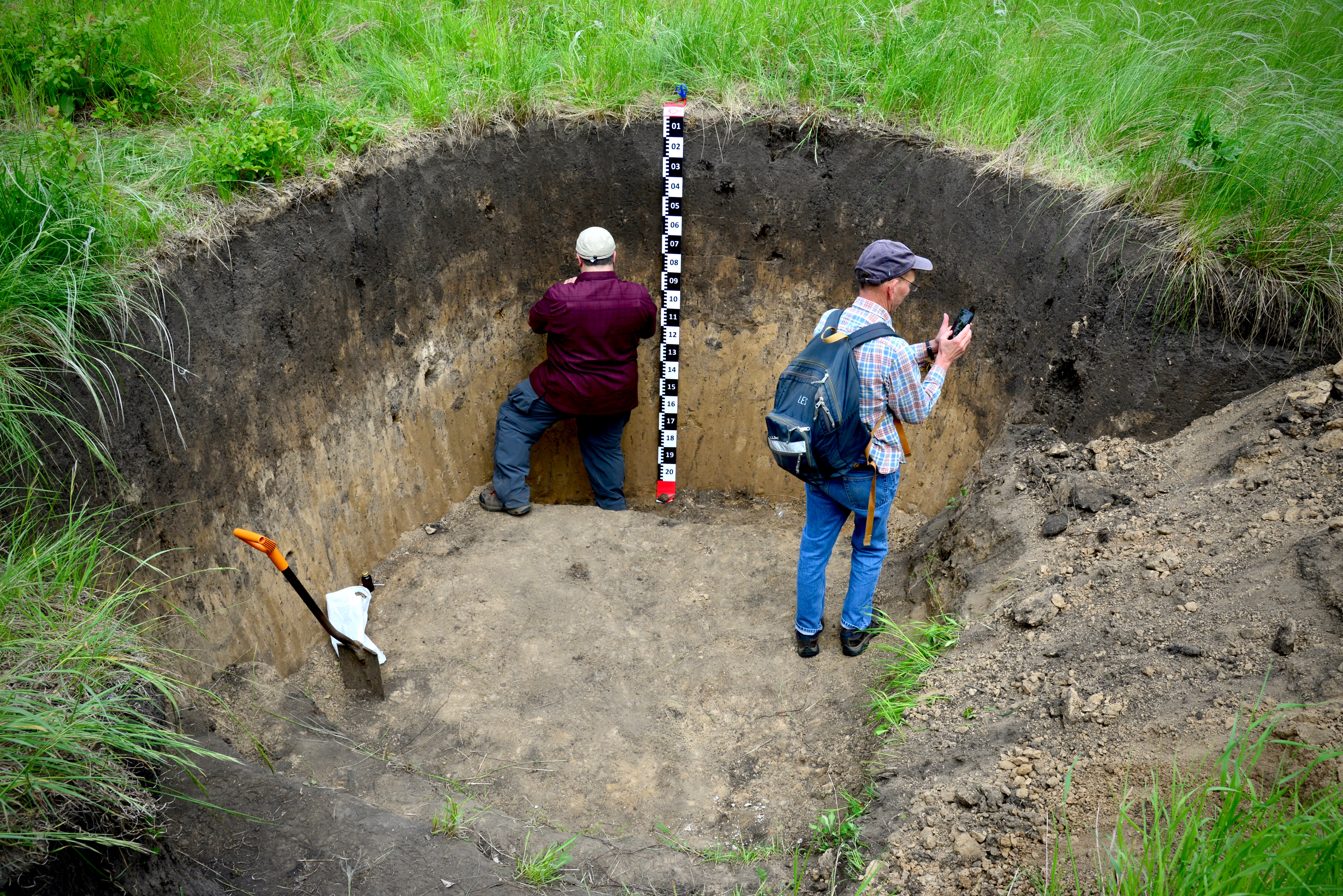 The study of leached chernozems in Central Chernozemic Preserve named after Professor V. V. Alekhin